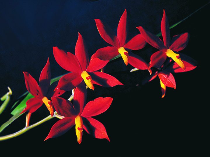 Pseudencyclia vitellina